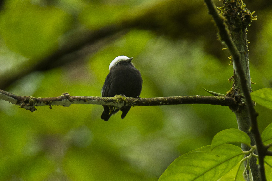 Blue-rumped manakin (Lepidothrix isidorei) - South Ecuador_S4E1232